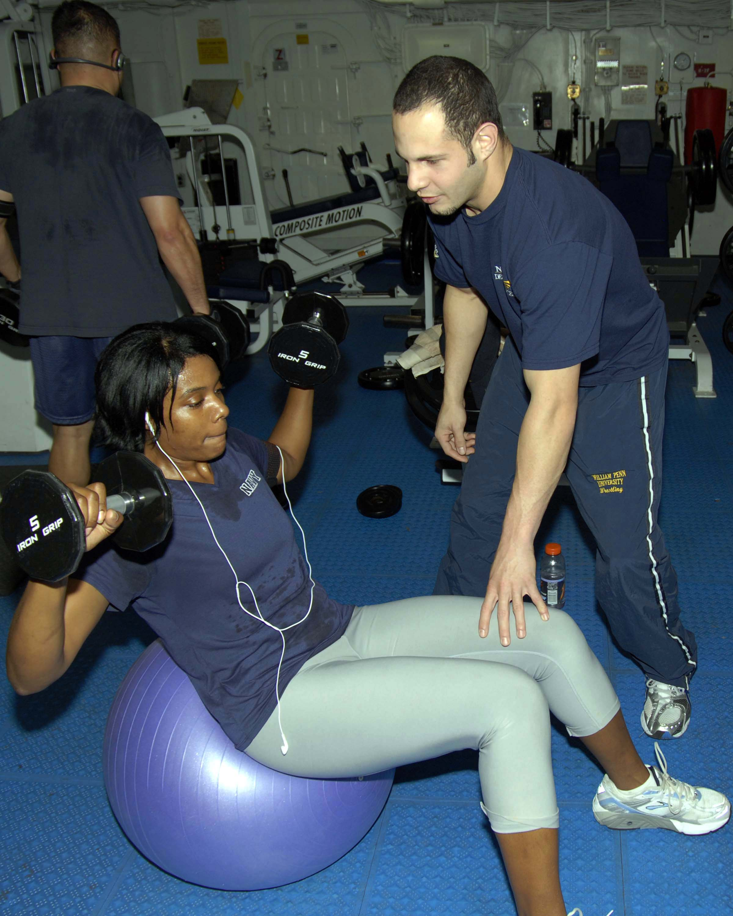 Original U.S. Navy description: The "Fit Boss" from the amphibious assault ship USS Boxer (LHD 4) stabilizes a Sailor aboard Boxer as she performs weighted sit-ups on an exercise ball.